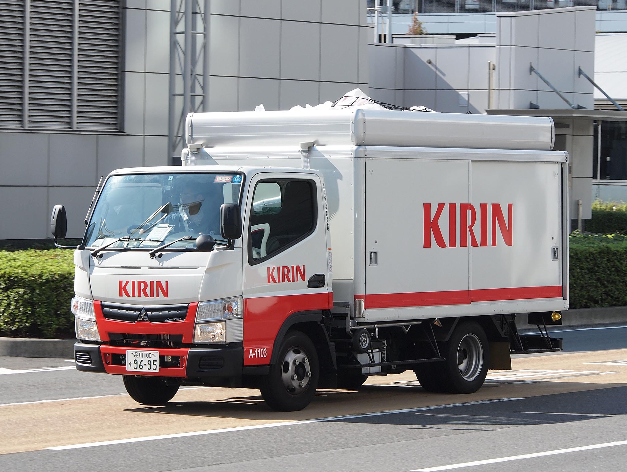 Truck of Kirin Beverage. Base car: Mitsubishi Fuso Canter (8th edition) Body: Sugawa Shatai